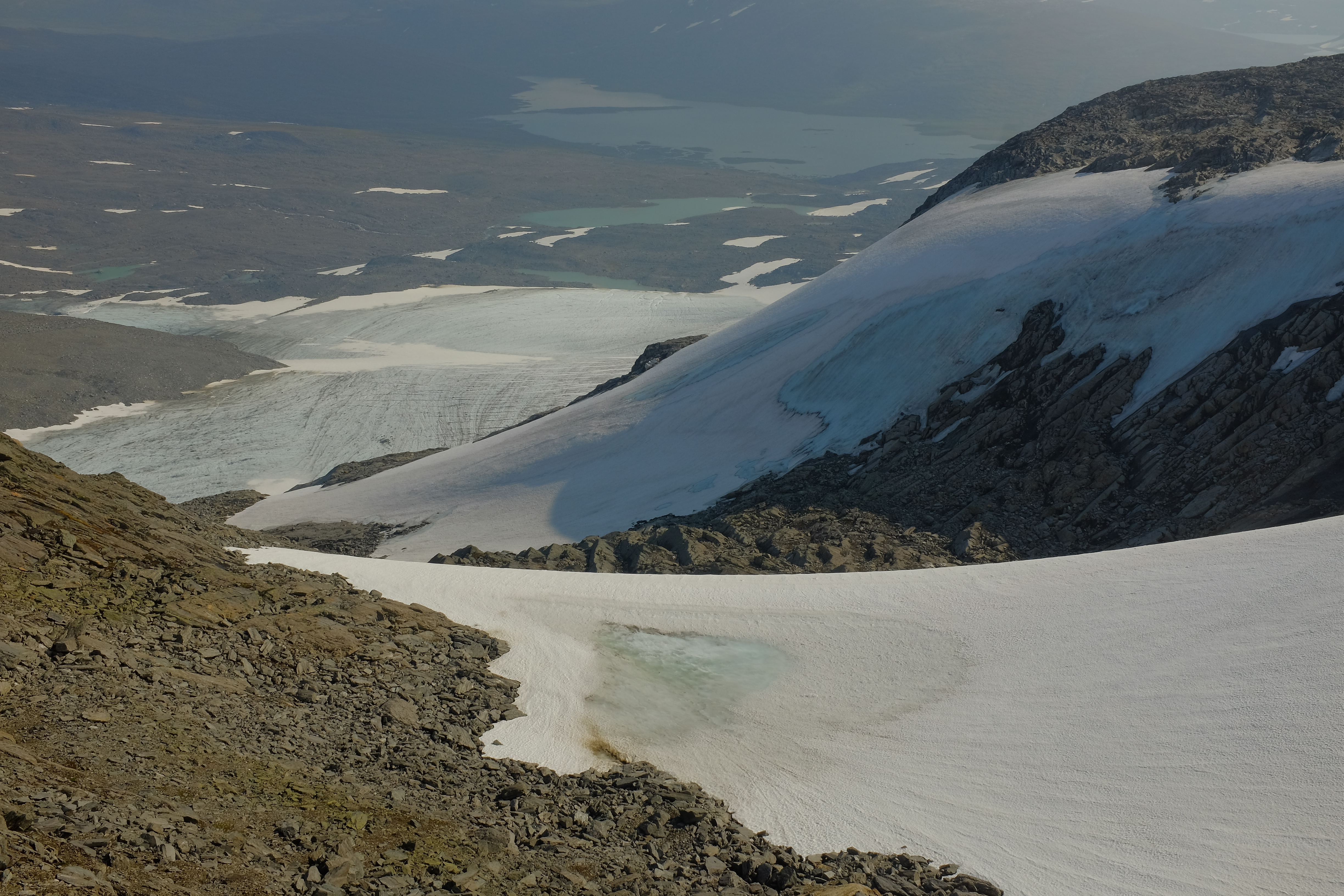 The Lináis have lost much of its area due to melting, this can be seen by the exposed rock sections without vegetation or moss.